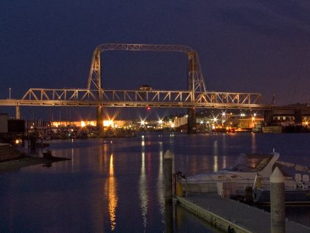 Photo of the Murray Morgan Bridge in Tacoma, Washington. Taken from the Foss Waterway by Ben Brooks.